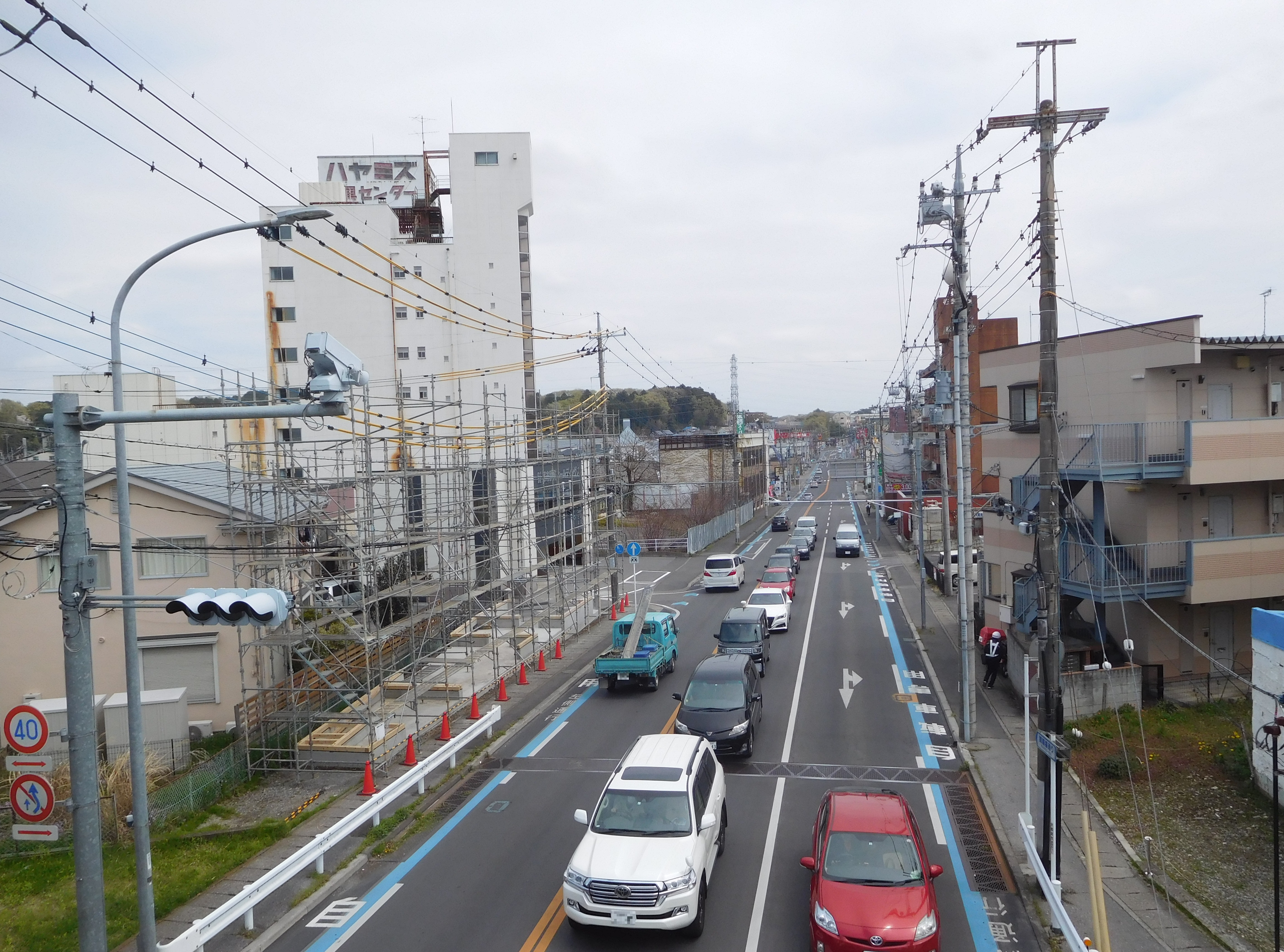 This is Velodrome street or Keirinjo Dori view from Tomatsuri Ohashi Pedestrian Bridge (Matsubara 3 chome intersection) in Utsunomiya, Tochigi, Japan.